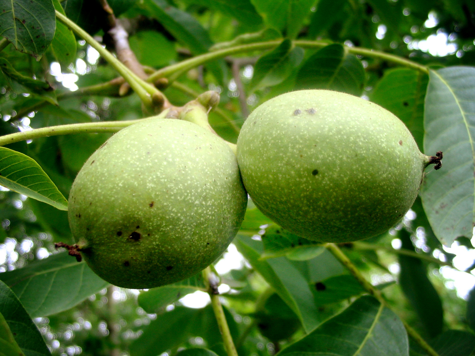 Walnut. August. Ukraine.